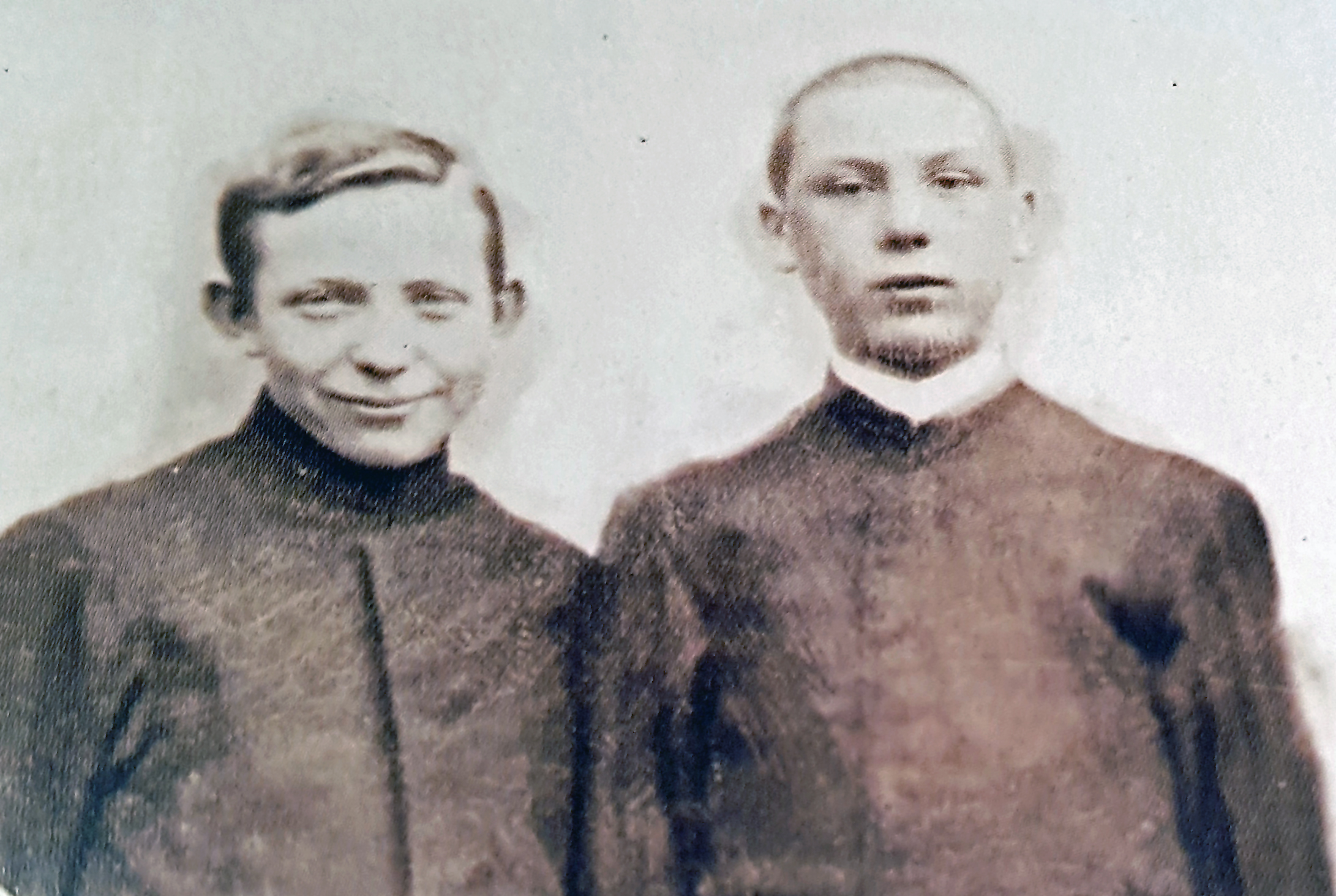 Die ersten Schüler in Marienstatt: Klemens Schuster (später: P. Garbiel) und Gregor Philipp